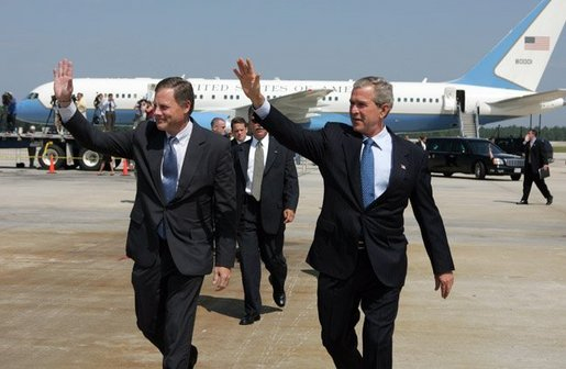 President George W. Bush arrives in Raleigh, North Carolina with Congressman Richard Burr on Wednesday July 7, 2004. The President was in North Carolina to meet with pending North Carolina judicial nominees. White House photo by Paul Morse